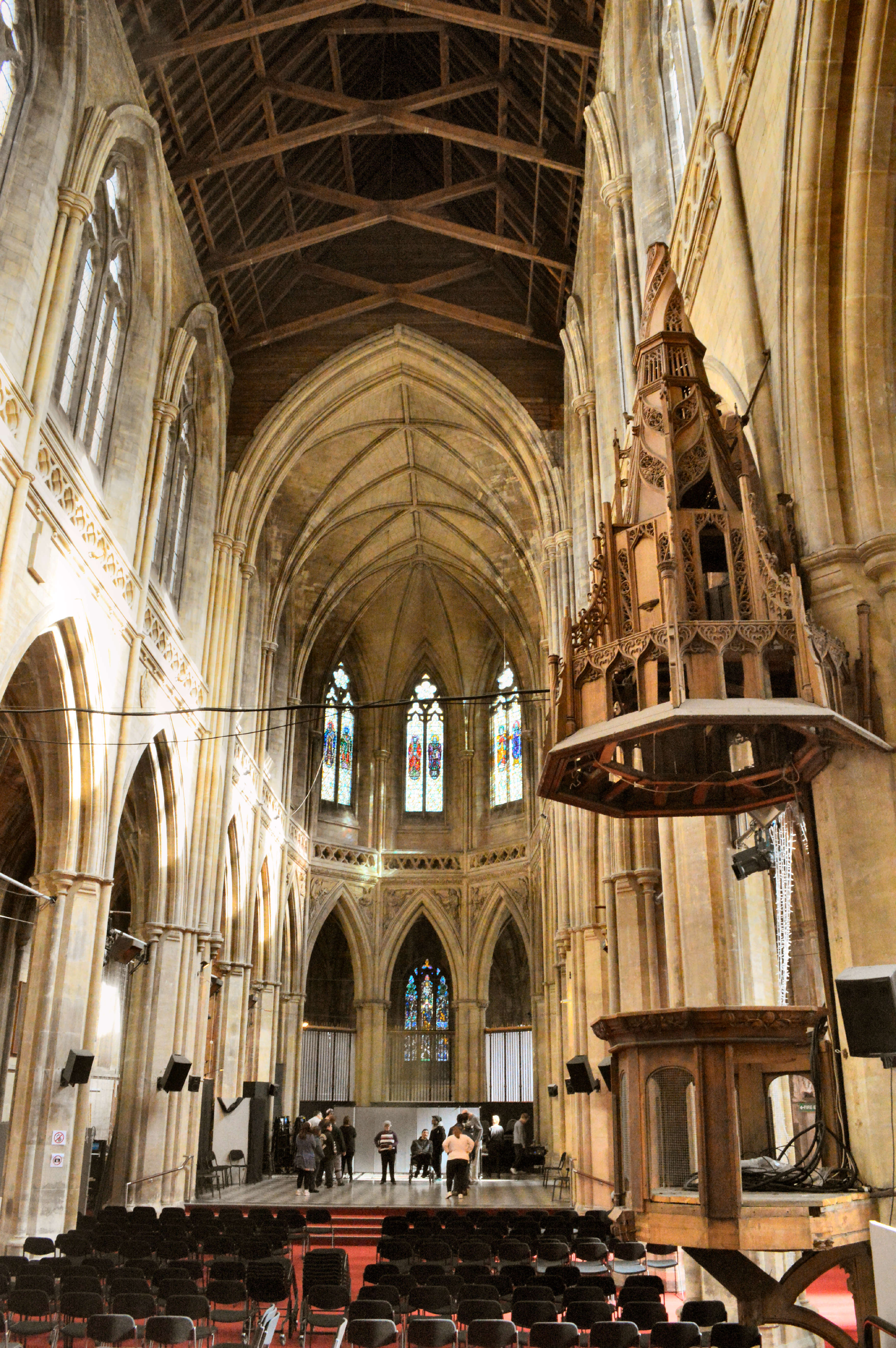 Teddington, St Alban's Church, interior